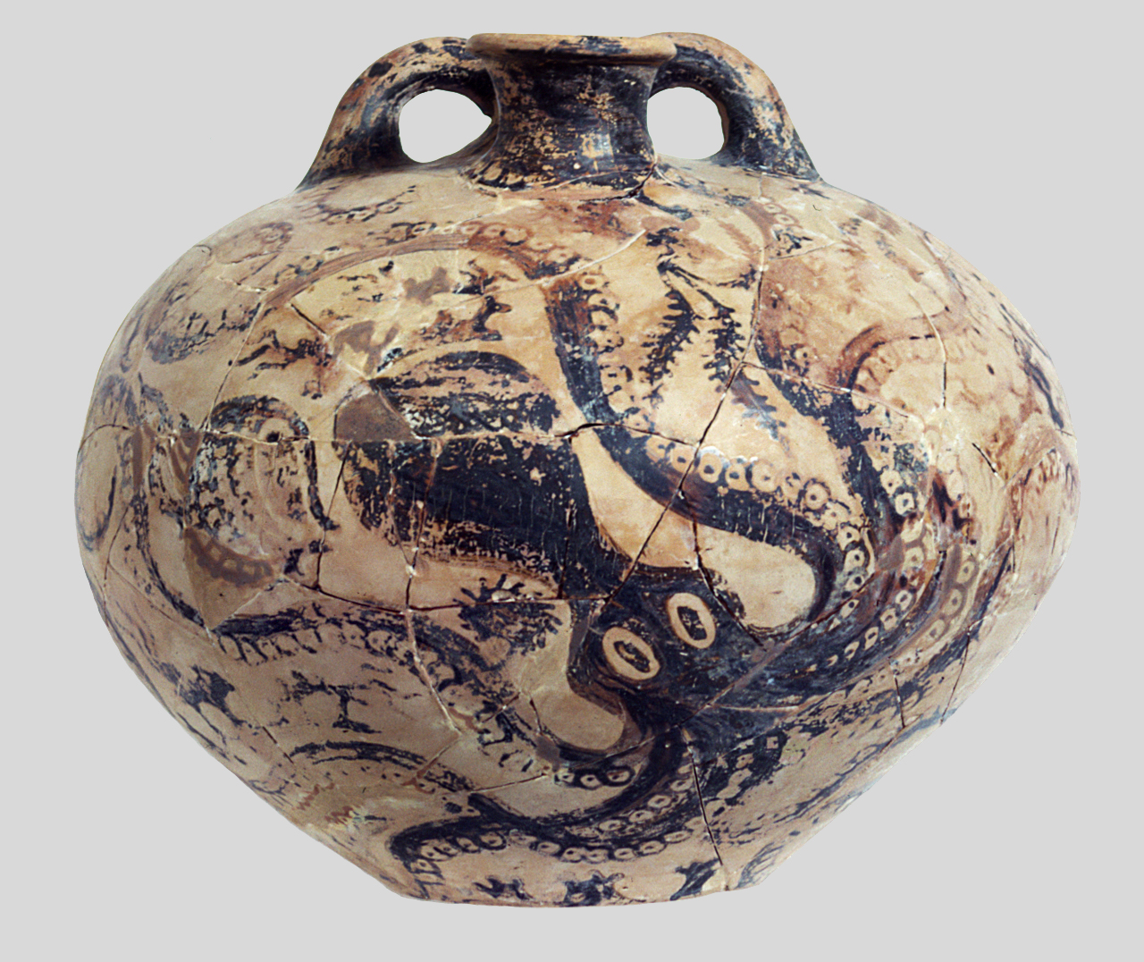 Late Minoan Stirrup Jar from Gournia/Crete